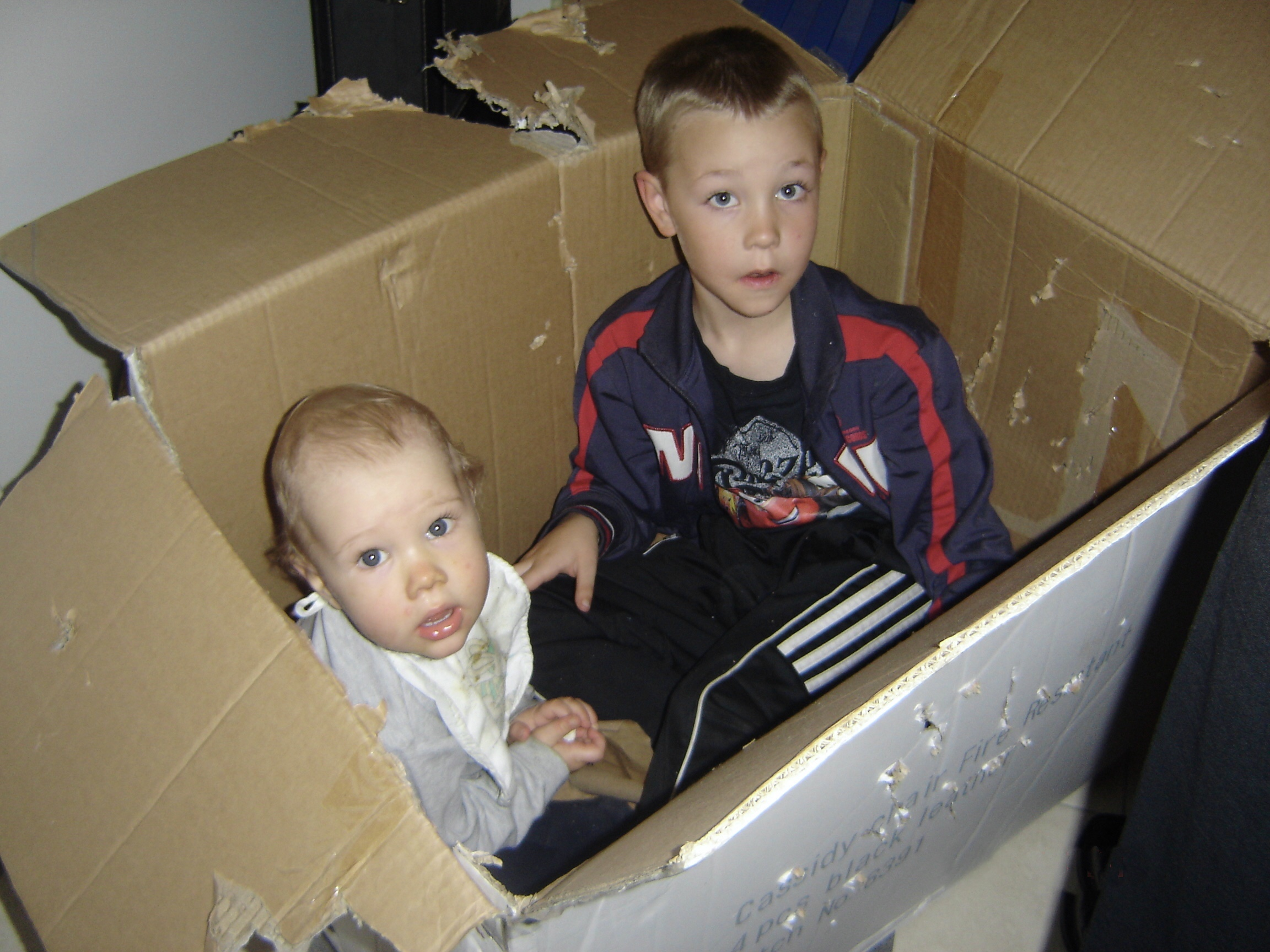 Icelandic boys; Arnór og Birkir